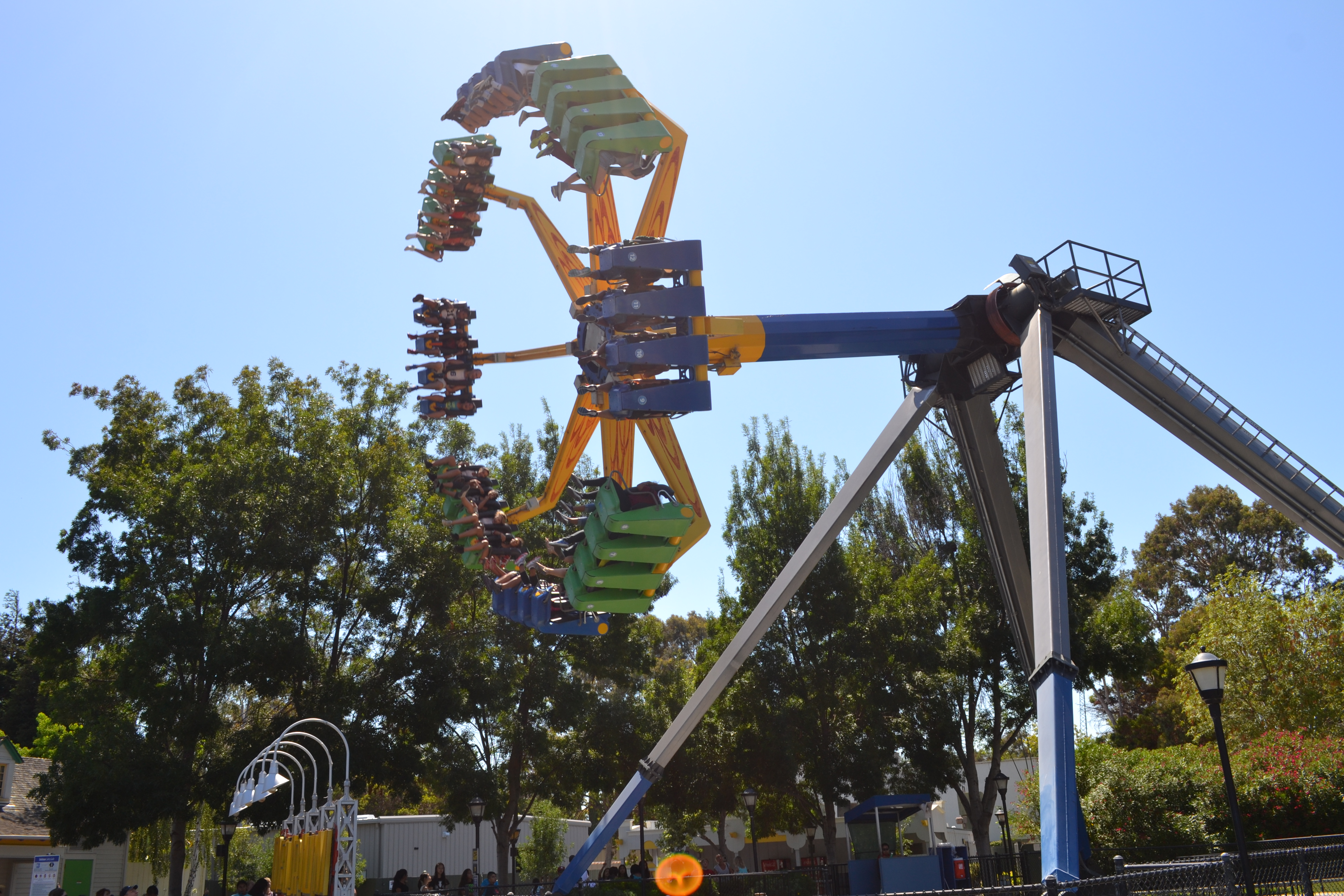 Ride at California's Great America